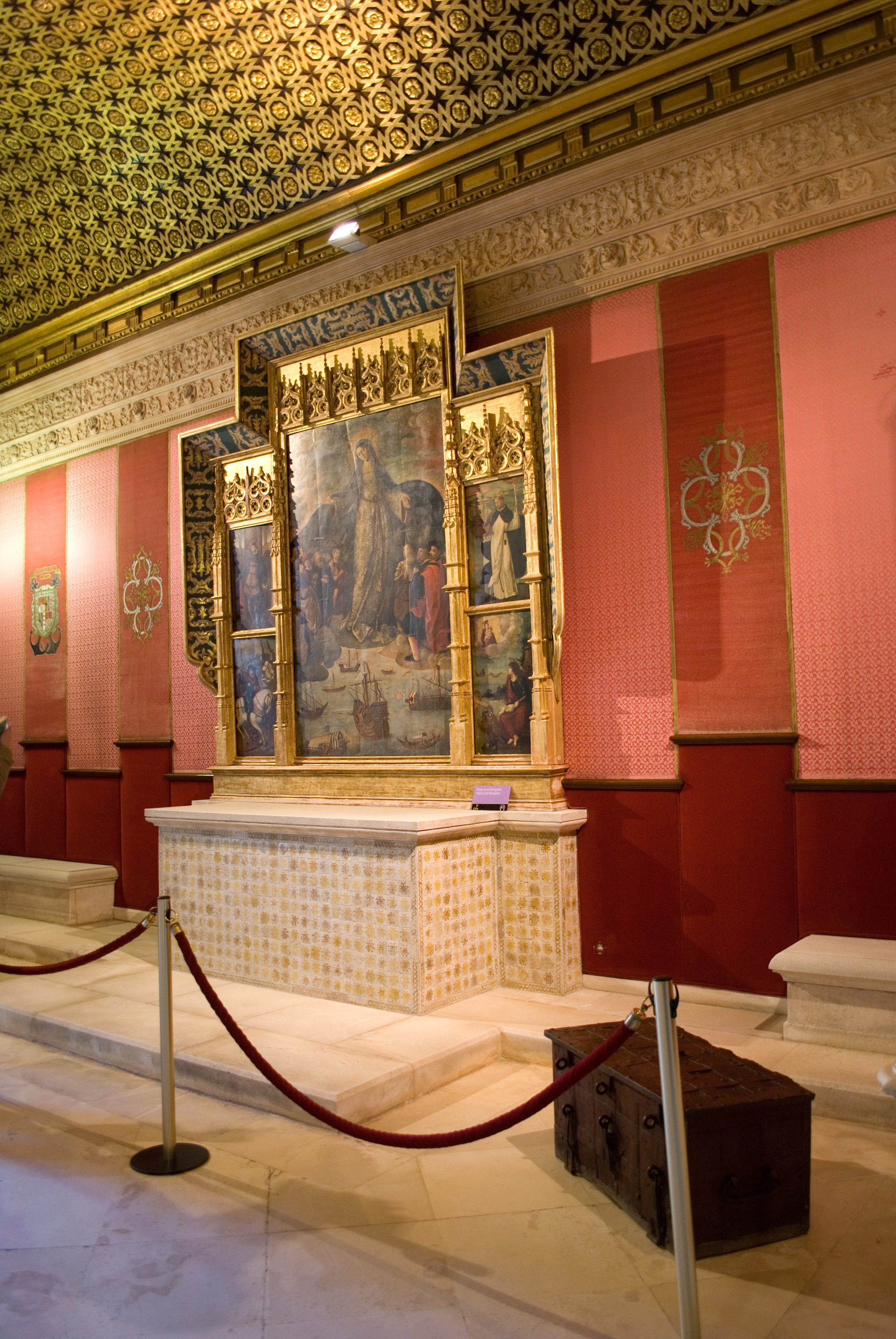 Alcázar of Seville